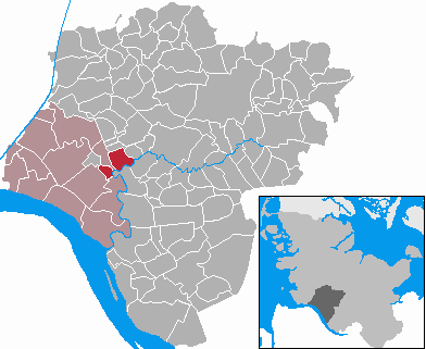 This map shows the area of the municipality Stördorf in the Kreis (district) Steinburg, Schleswig-Holstein, Germany.